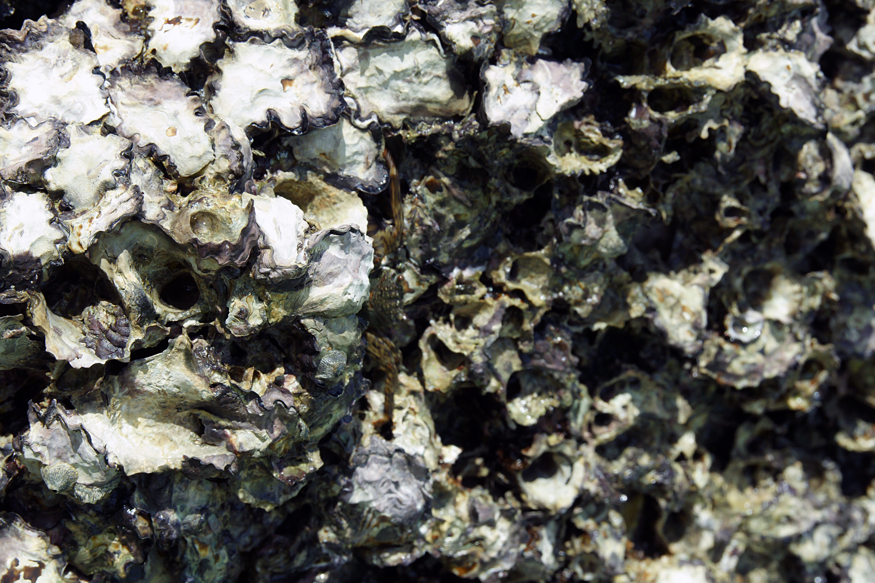 Oysters on rock in Ko Kai, Krabi, Thailand.